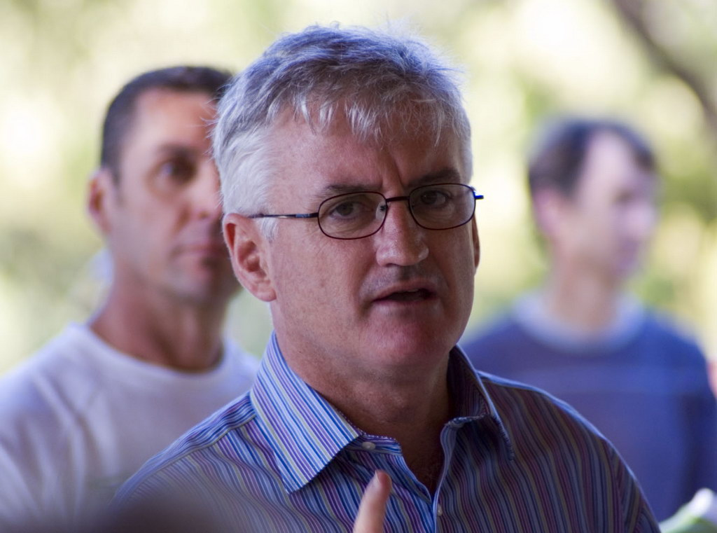 Alan Carpenter Premier of Western Australia (2006- ) at the 2006 Commonwealth Games Queens Baton Relay - Kings Park, Western Australia.